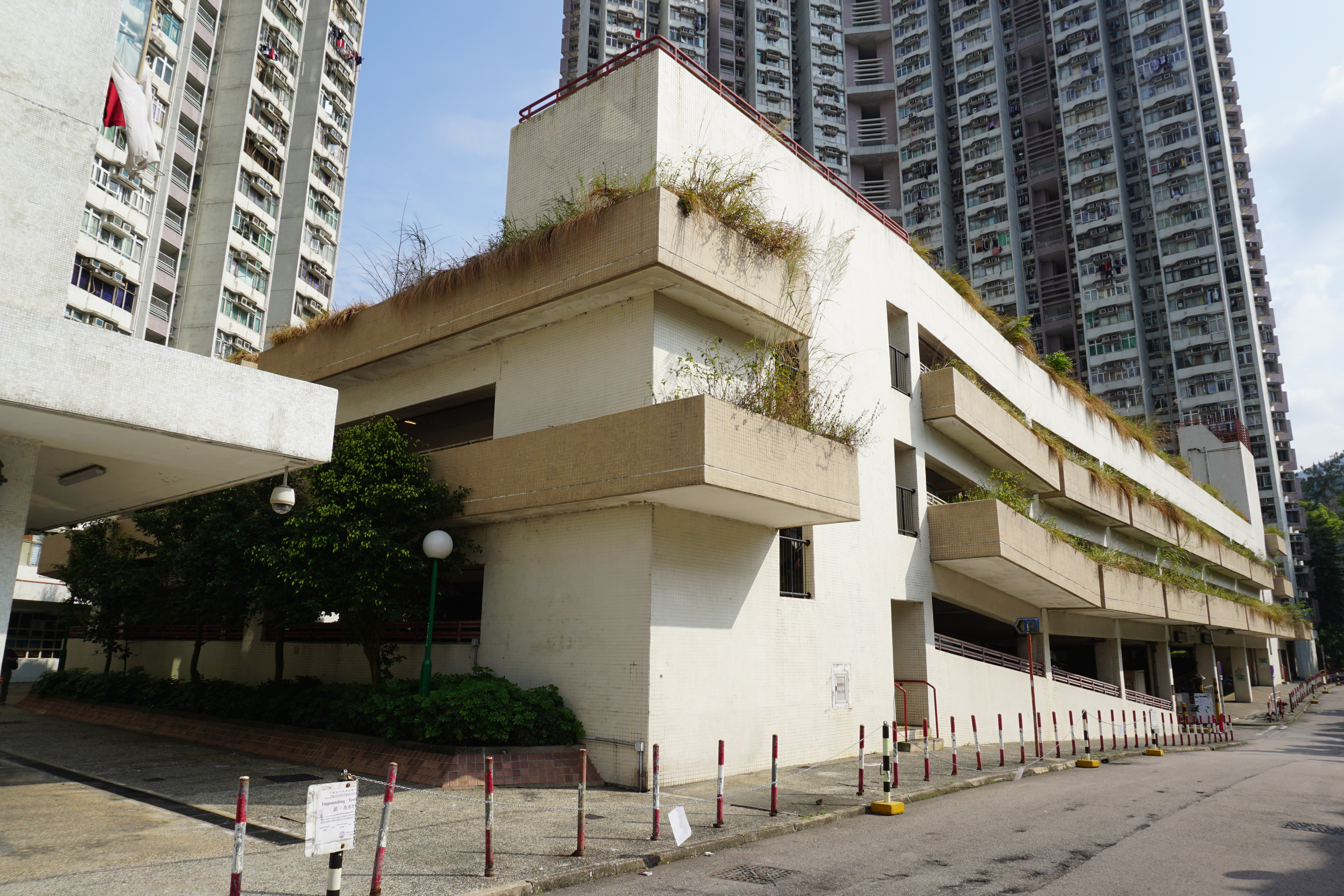 Po Nga Court in Tai Po, Hong Kong.